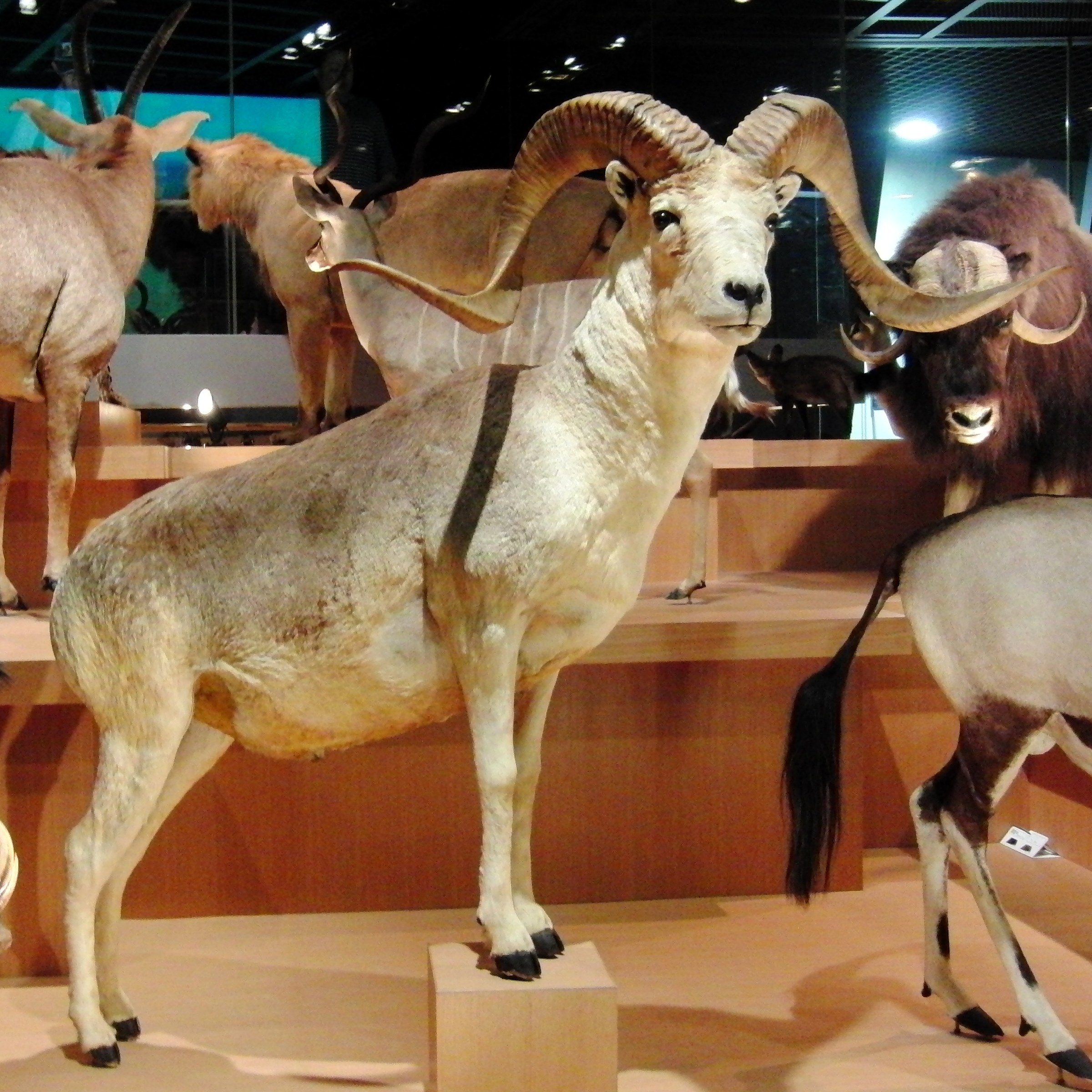 Stuffed specimen of Argali (Ovis ammon). Exhibit in the National Museum of Nature and Science, Tokyo, Japan.